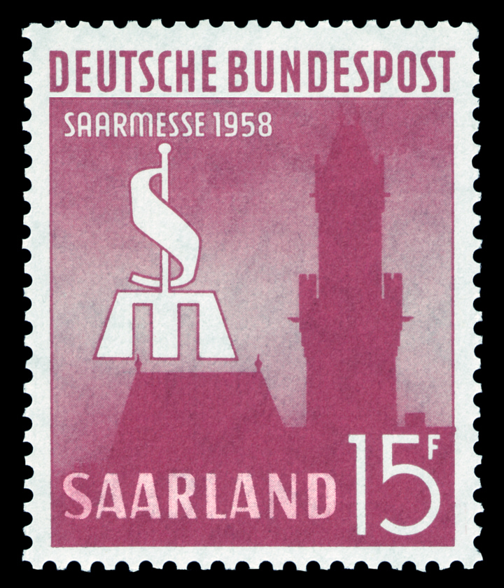 International Saarmesse 1958